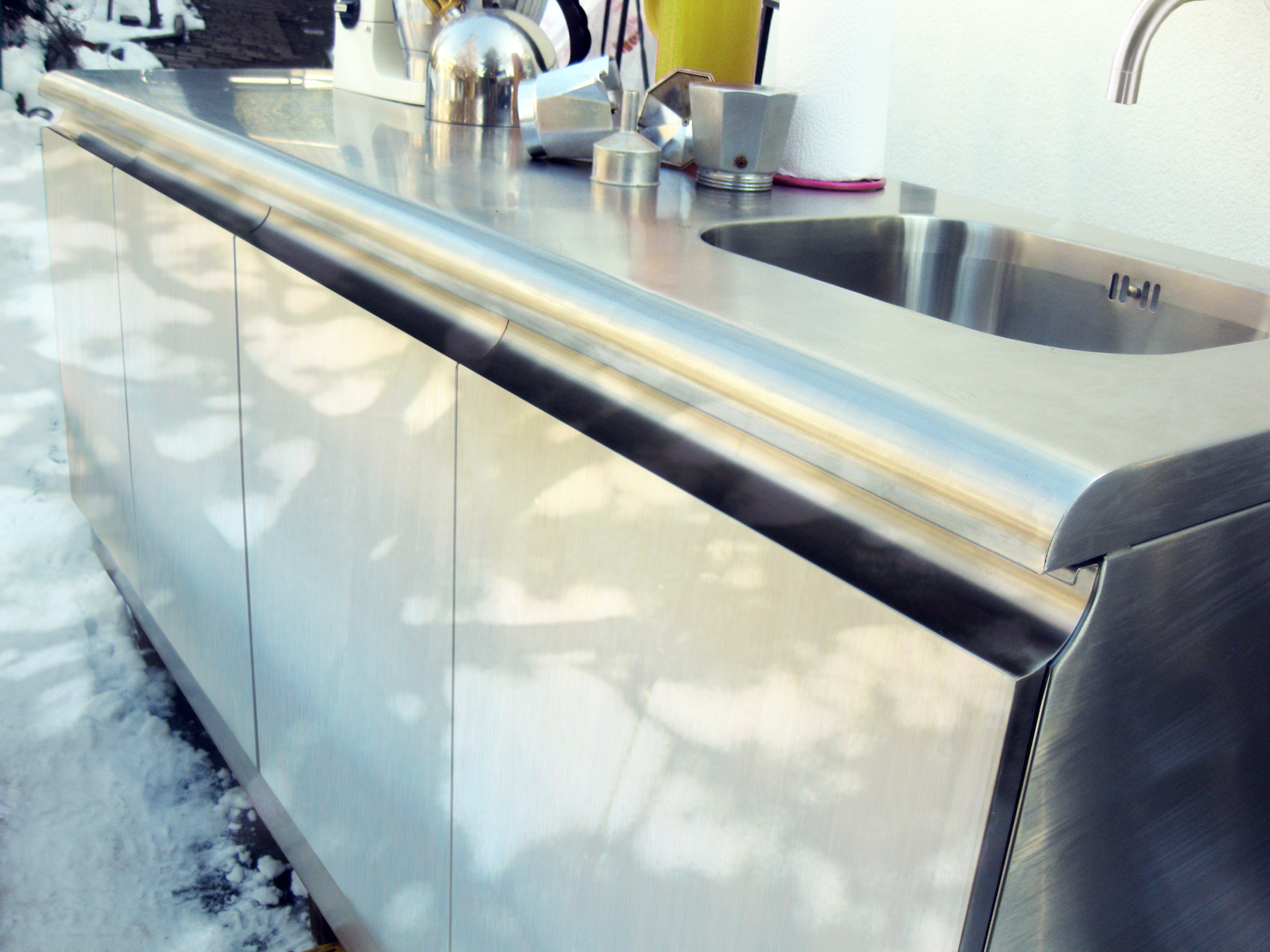 8linden linear, a indoor-outdoor stainless steel built-in kitchen from Germany